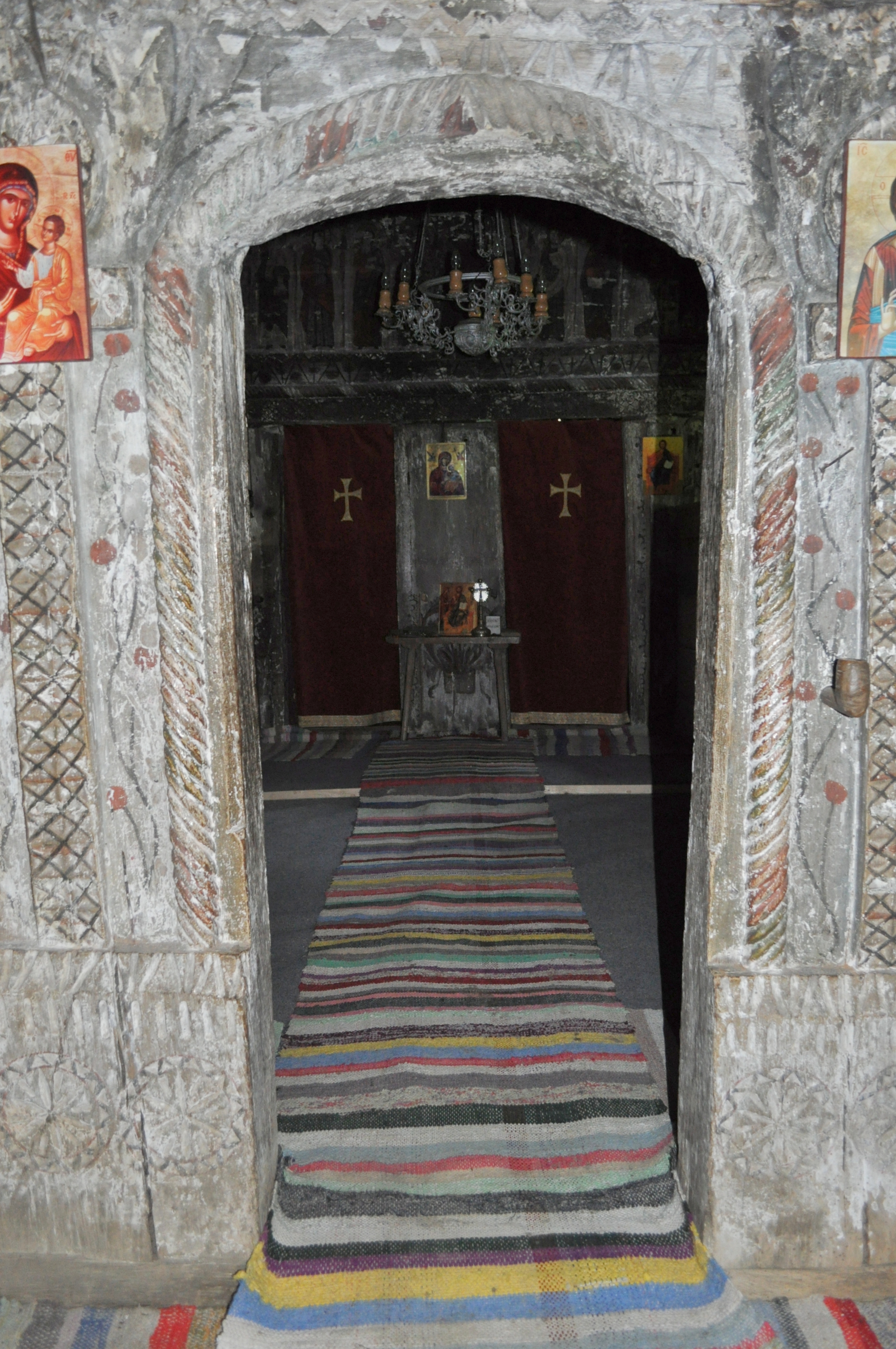 Wooden church in Cremenea, Cluj countyRomână: Biserica de lemn din Cremenea, județul Cluj